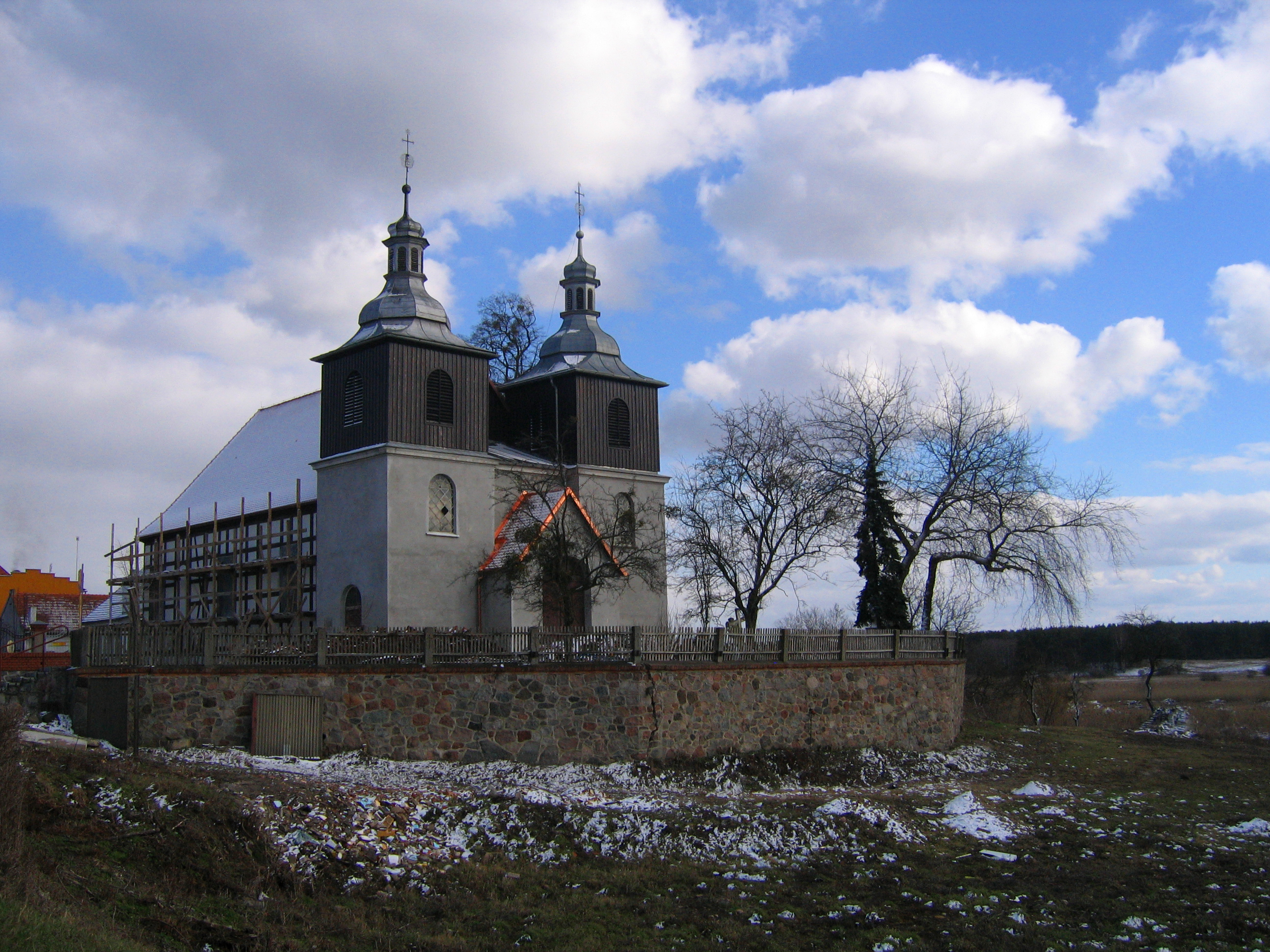 St Nicholas' Church, 1737, Skoki